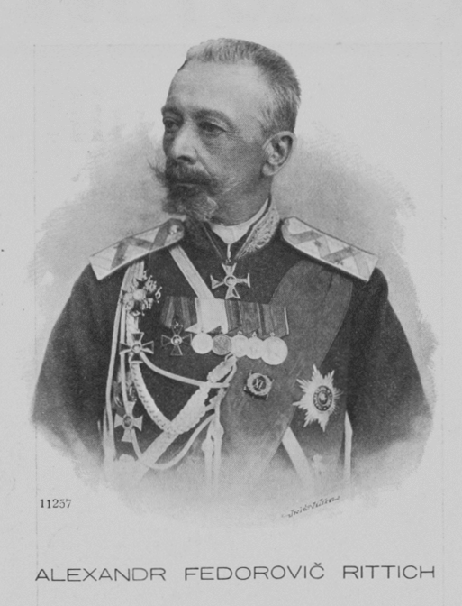 Portrait of Aleksandr Fyodorovich Rittikh (1831-1914